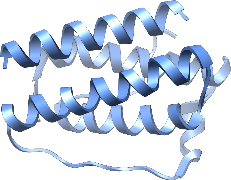 Structure of Leptin, PDB id 1AX8, generated with UCSF Chimera